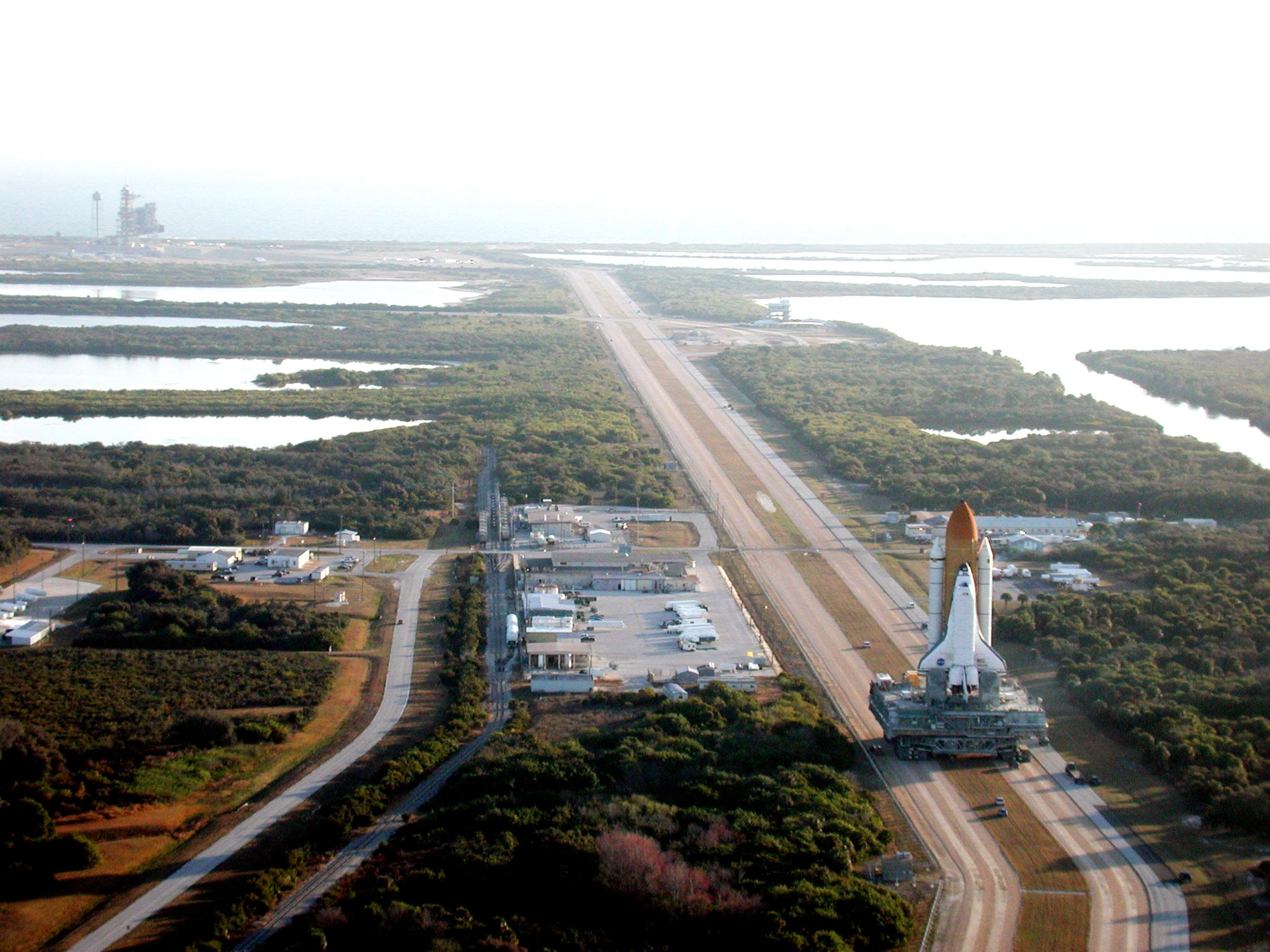 A Crawler-Transporter carrying a mobile launch platform (MLP). In turn, the MLP is supporting Space Shuttle Atlantis and Atlantis's solid rocket boosters and external tank. As seen on January 26, 2001, Atlantis is being moved to launch pad 39A in preparation for STS-98. This photograph (facing east from the top of the Vehicle Assembly Building) shows the Crawler near the beginning of its 3.4 mile (5.5 km) trip down the crawlerway. Launch pad 39A is visible on the horizon at left. During STS-98, Atlantis delivered the Destiny Laboratory Module to the International Space Station.